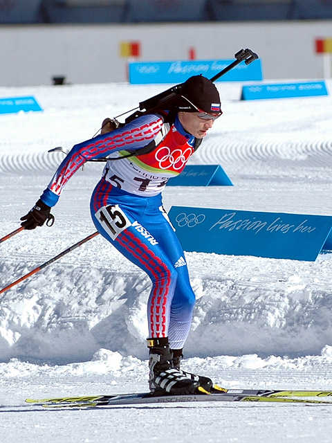 Svetlana Ishmouratova at the 2006 Winter Olympics in Torino.